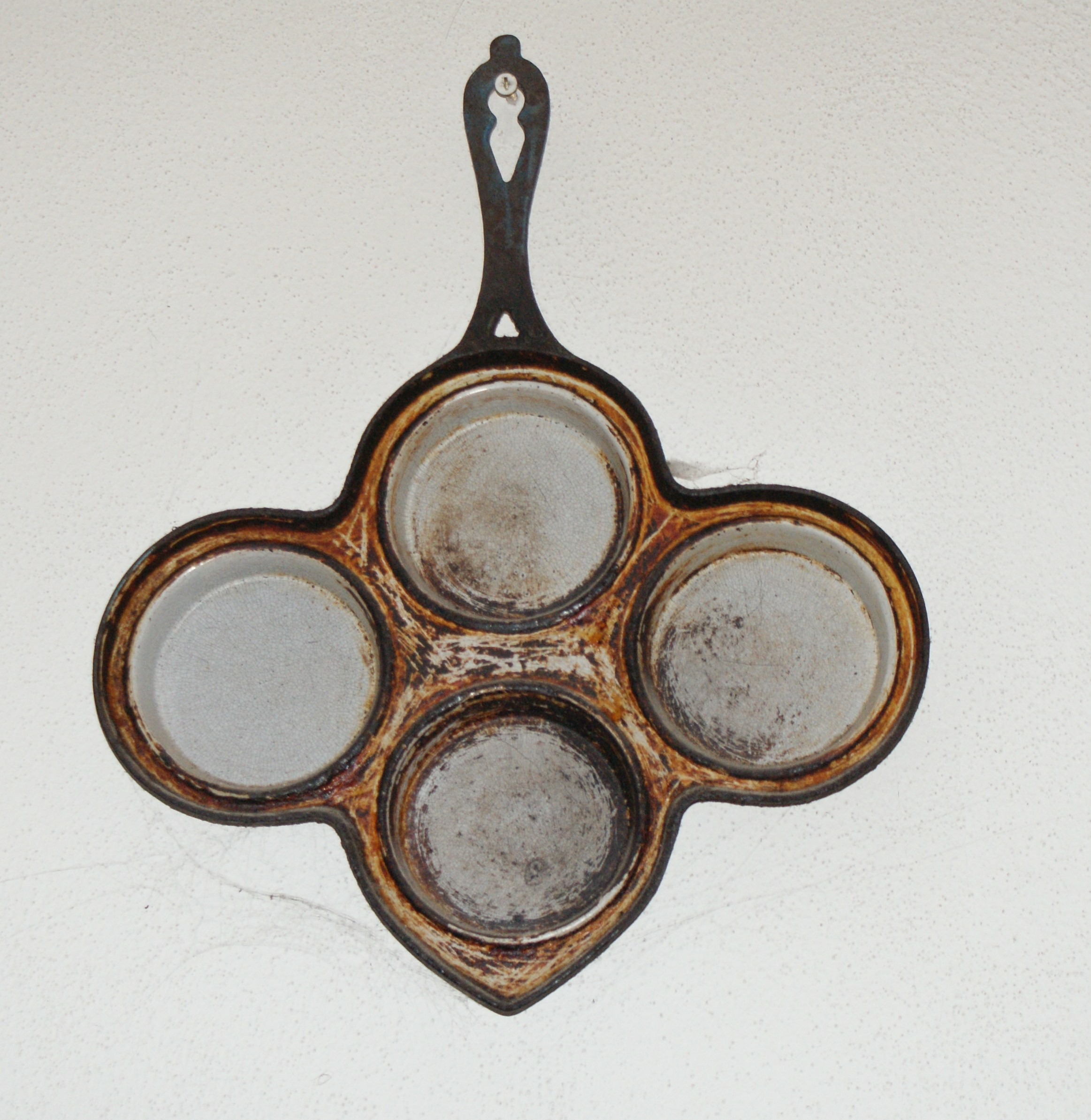 An old pancake pan from Bohemia.